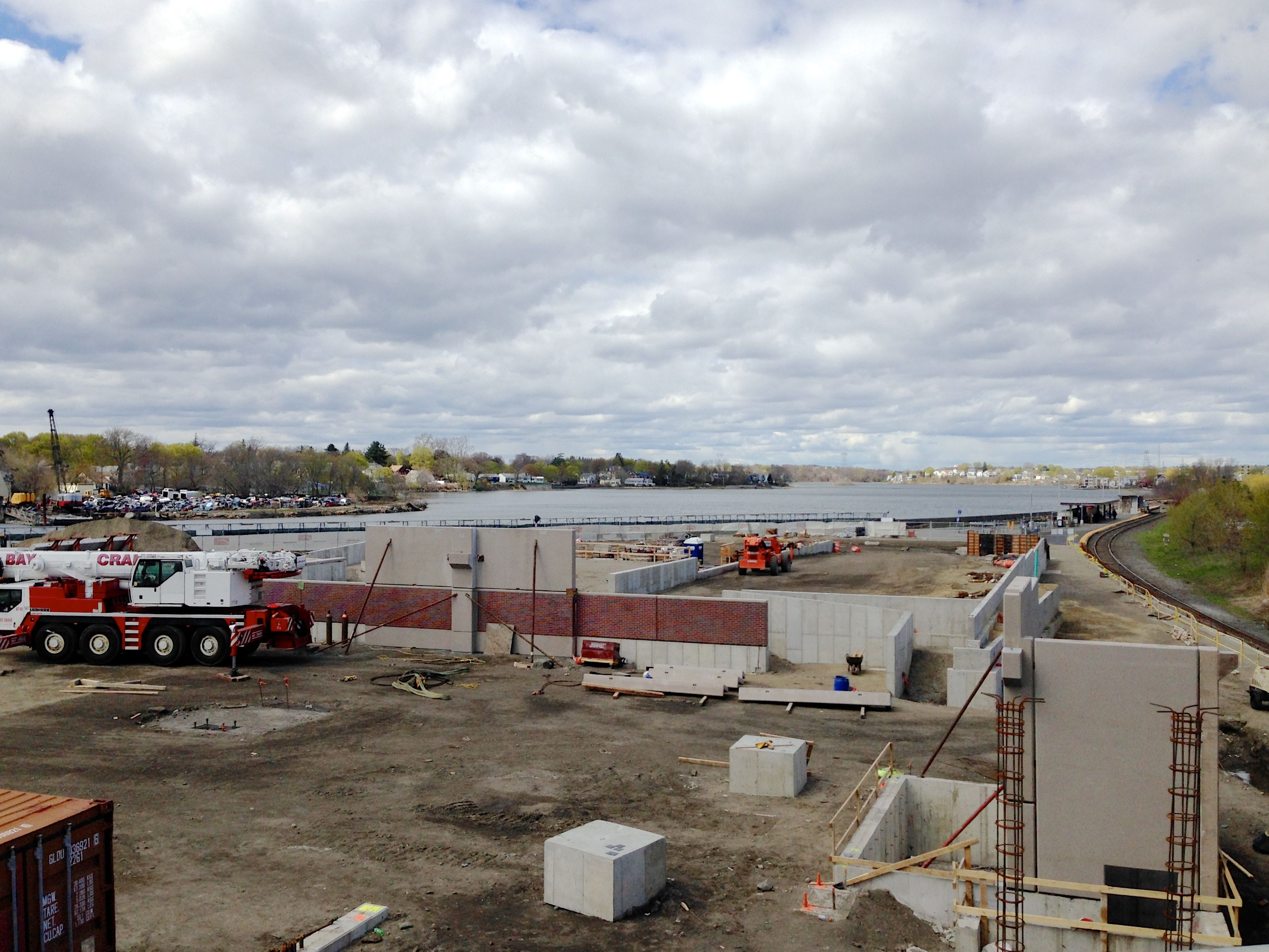 Foundation work underway for the Salem Station garage on the MBTA's Newburyport-Rockport line.